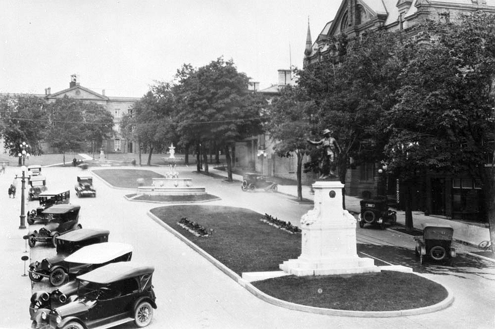 Court House Avenue and Soldier's Monument, Brockville, Ontario.